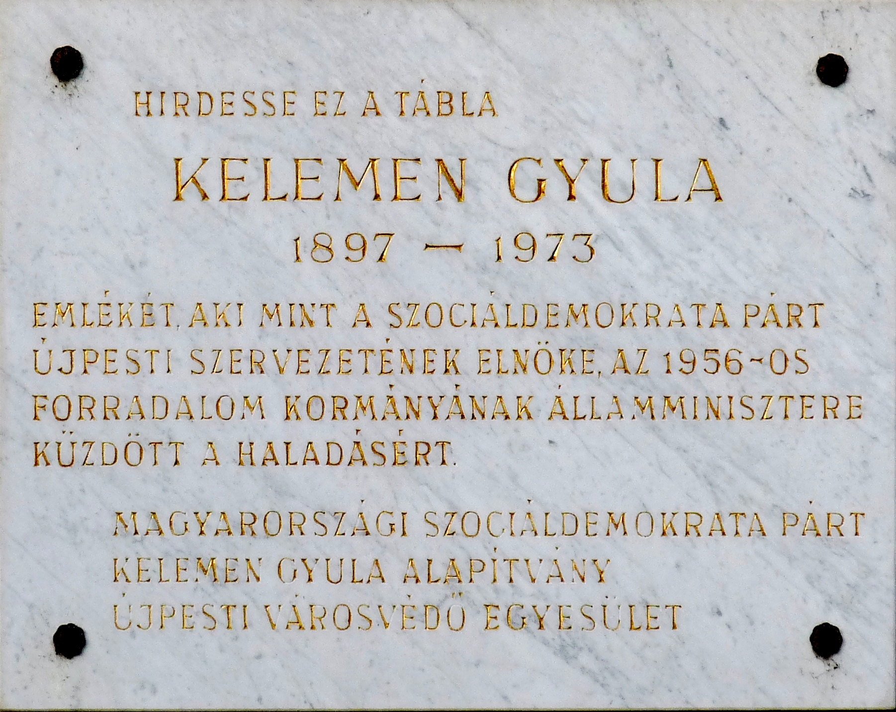 Gyula Kelemen (1897-1973) commemorative plaque in Budapest District IV, Munkásotthon Street No 22.